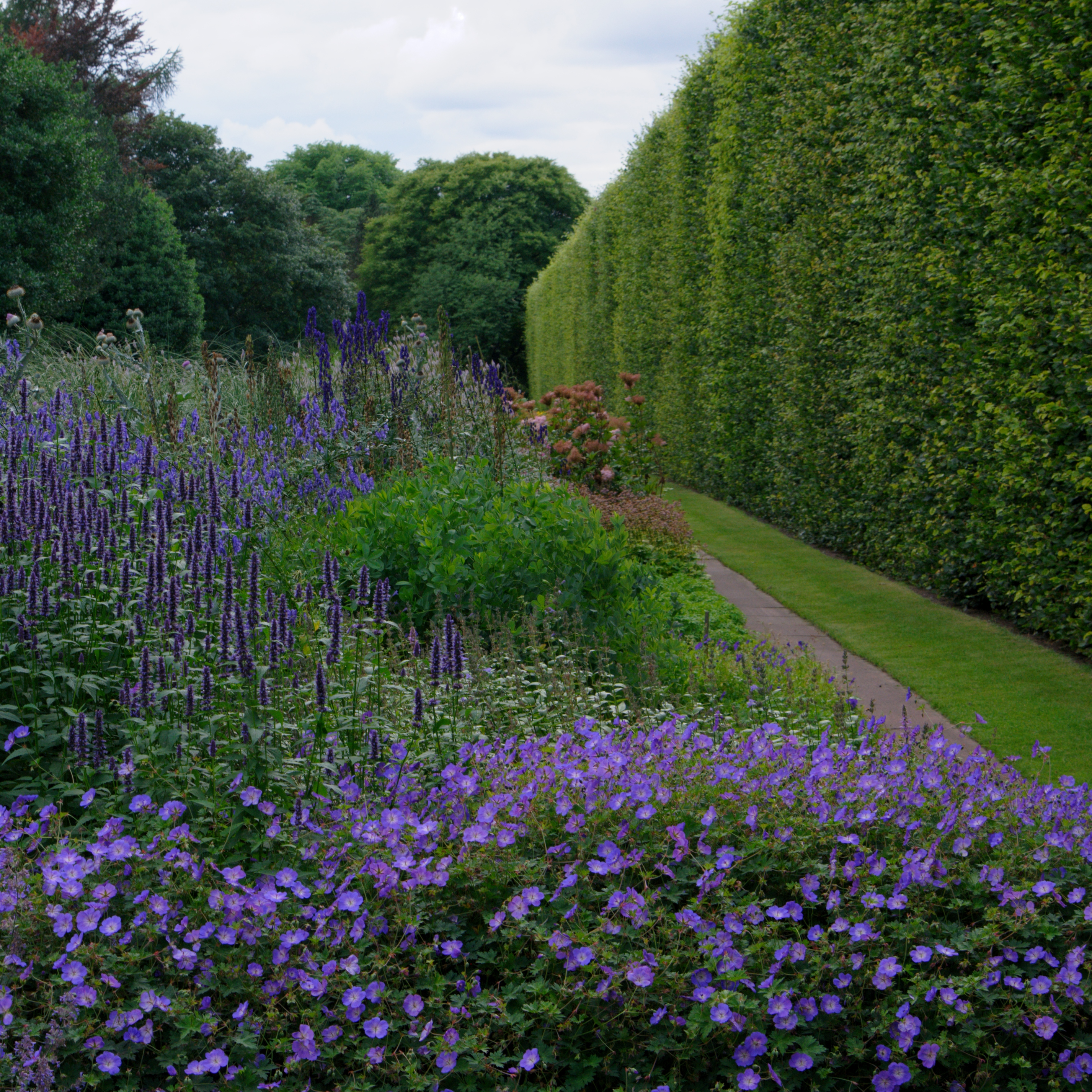 Edinburgh botanic garden, herbaceous border and beech hedge